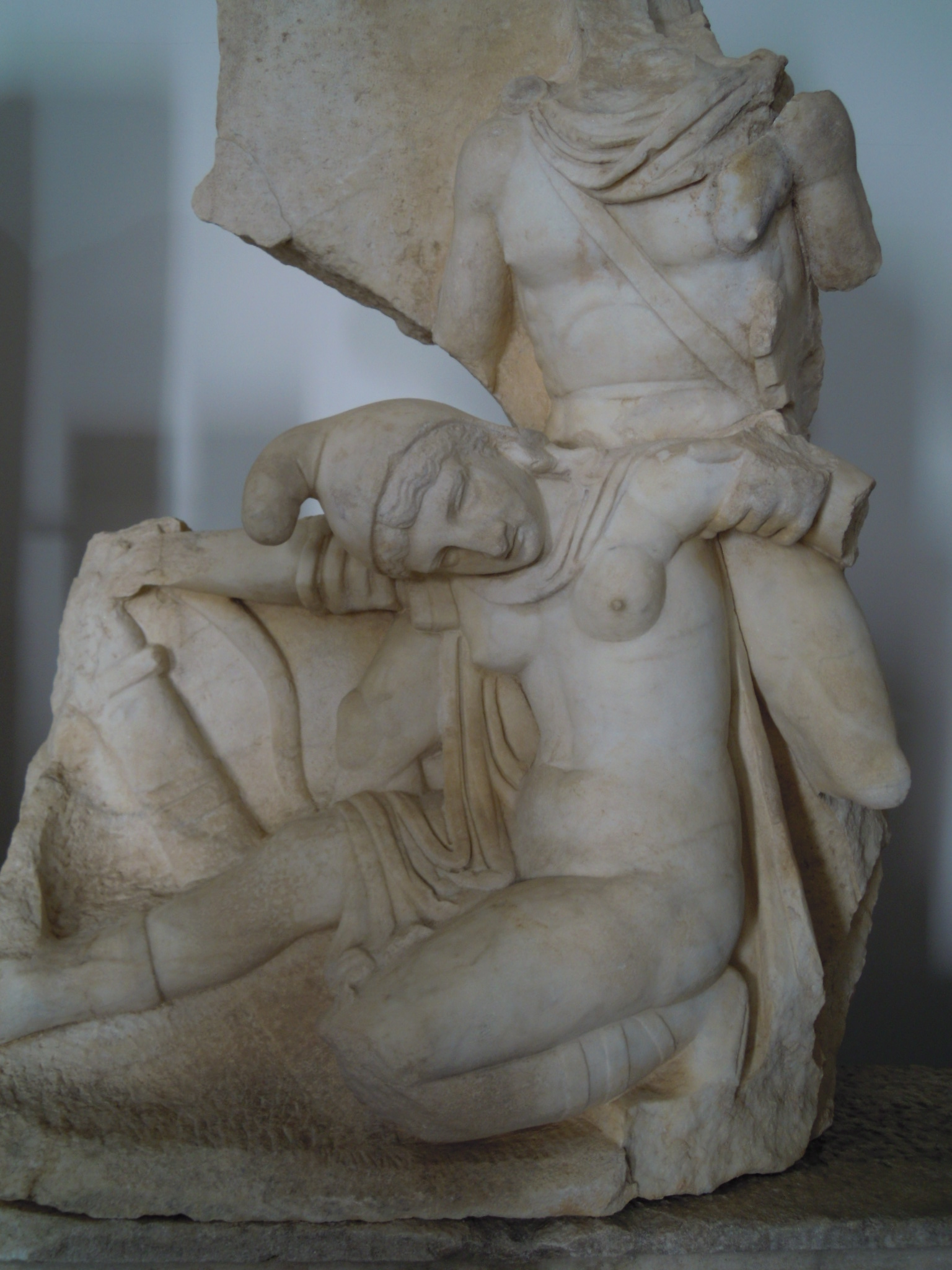 Achilles with dying Penthesilea at Aphrodisias Arche Museum